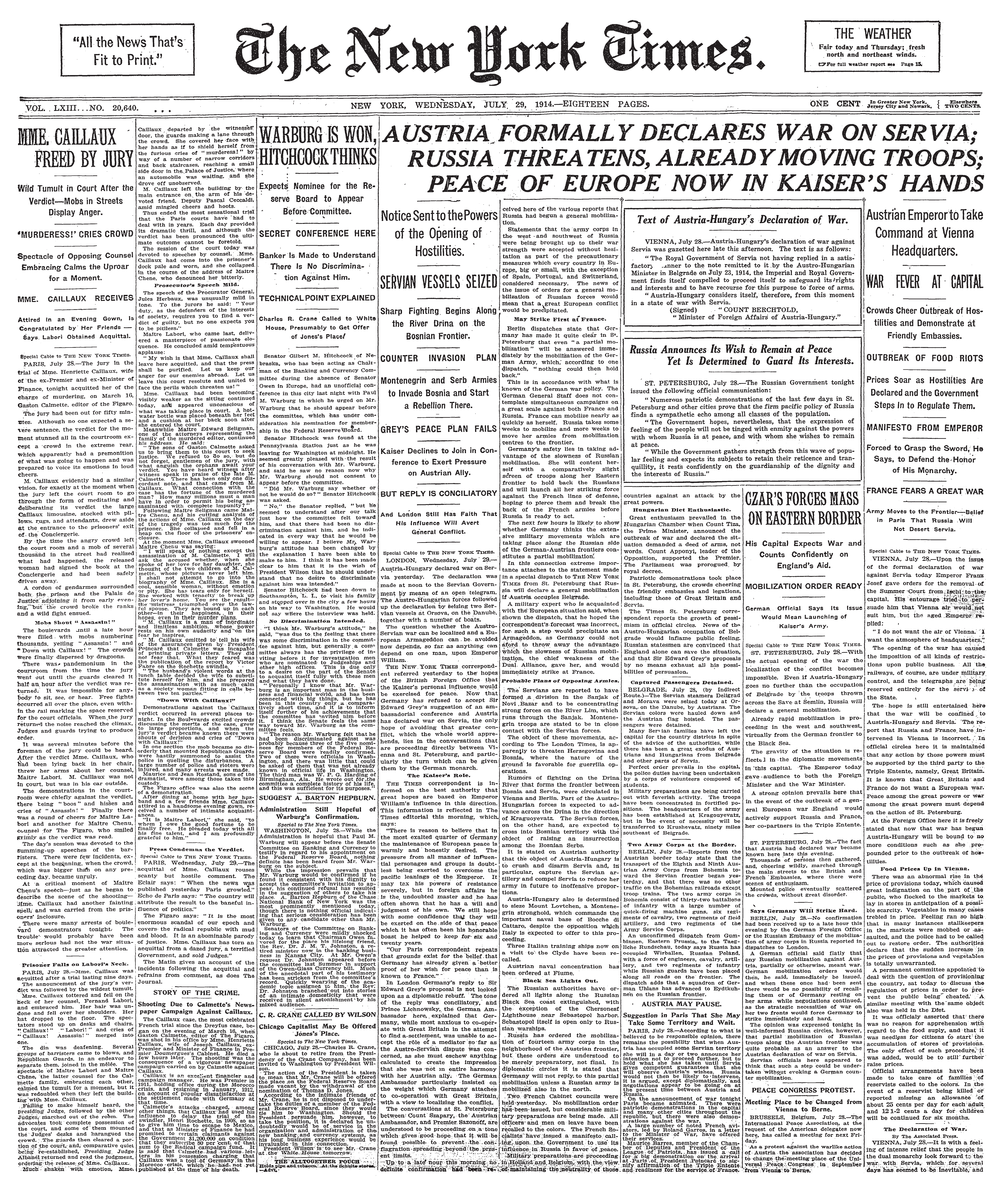 Front page of The New York Times on July 29, 1914. Headline, "AUSTRIA FORMALLY DECLARES WAR ON SERVIA" announces the beginning of World War I.